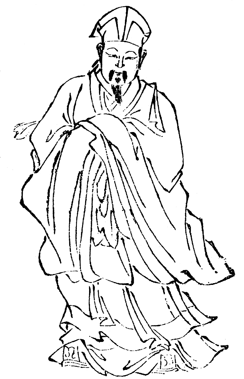 Portrait of Xun Yu in Romance of the Three Kingdoms(San Guo Yan Yi), 1734 edition. A poem on Xun Yu is printed above it on the same page.